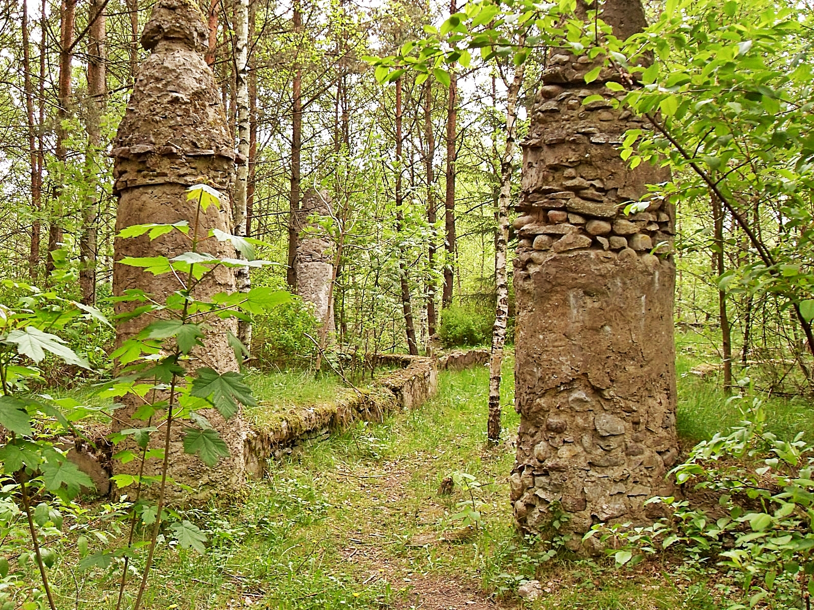 Remnant of the ancient gardens in Płocicznie